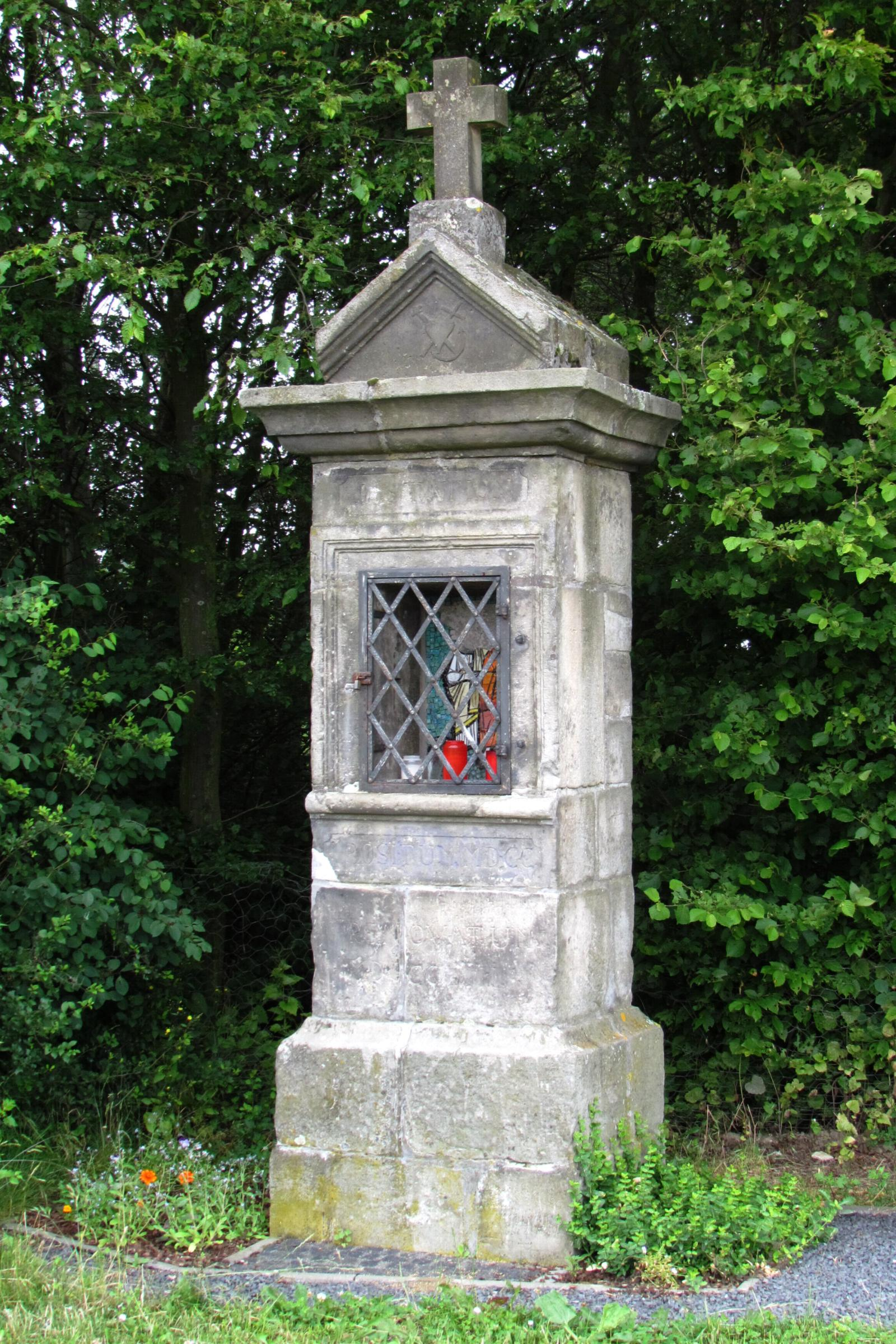 This is a photograph of an architectural monument.It is on the list of cultural monuments of Korschenbroich